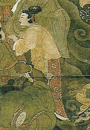 Painting of a Goryeo era (918-1392) woman.